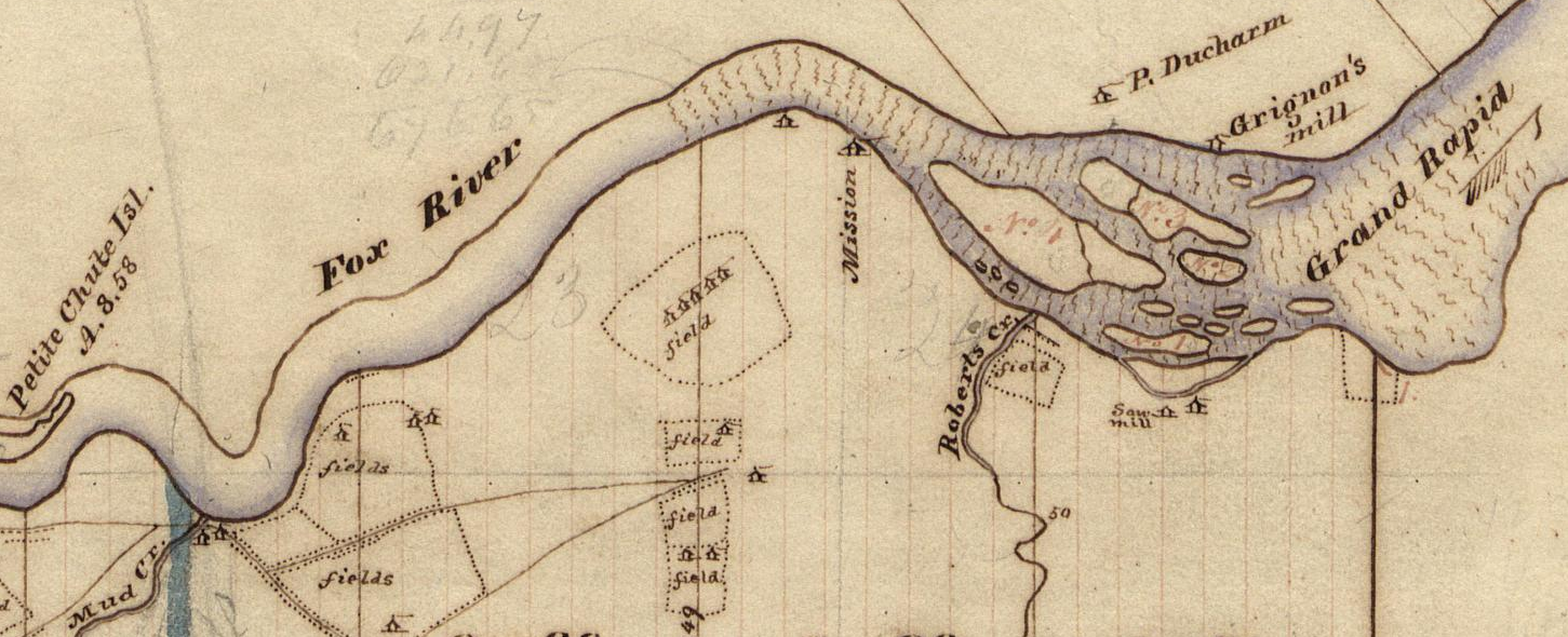 Part of plat map, 1835, Grand Kaukauna. The fields to the south of the river belonged to the Stockbridge. Daniel Whitney's store was at Mud Creek on the left.